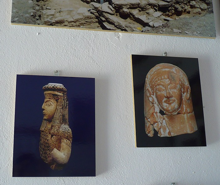 archaelogical findings at Despotiko